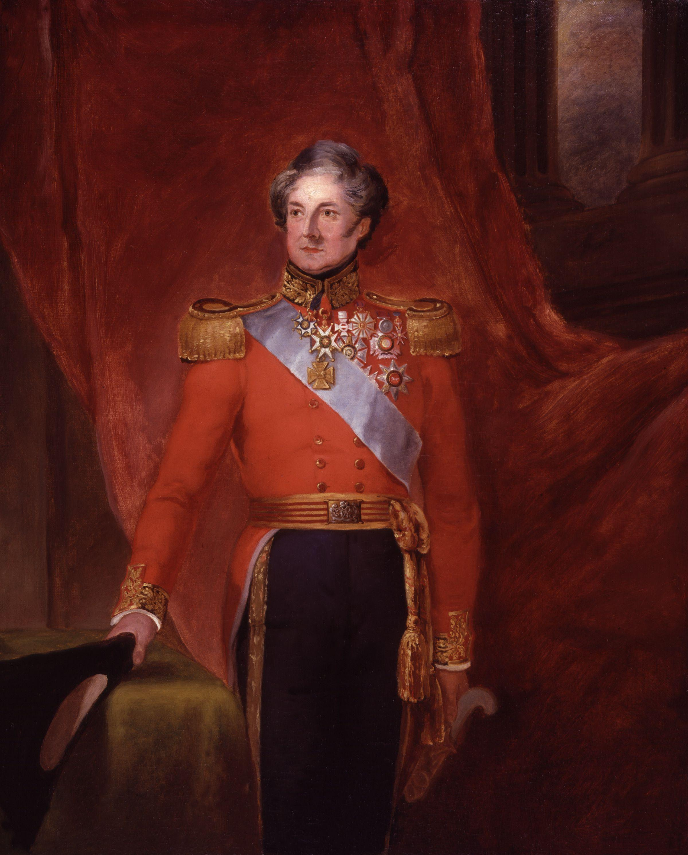 Sir Colin Halkett, by William Salter (died 1875). All images in this batch have been confirmed as author died before 1939 according to the official death date listed by the NPG.